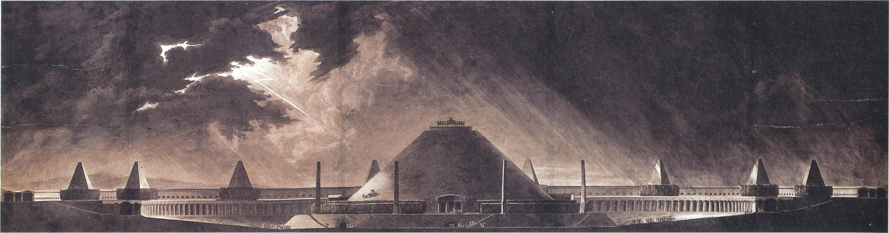 A monumental tomb for souvereigns of a great empire, second Grand Prix, general section with elevation of the main monument